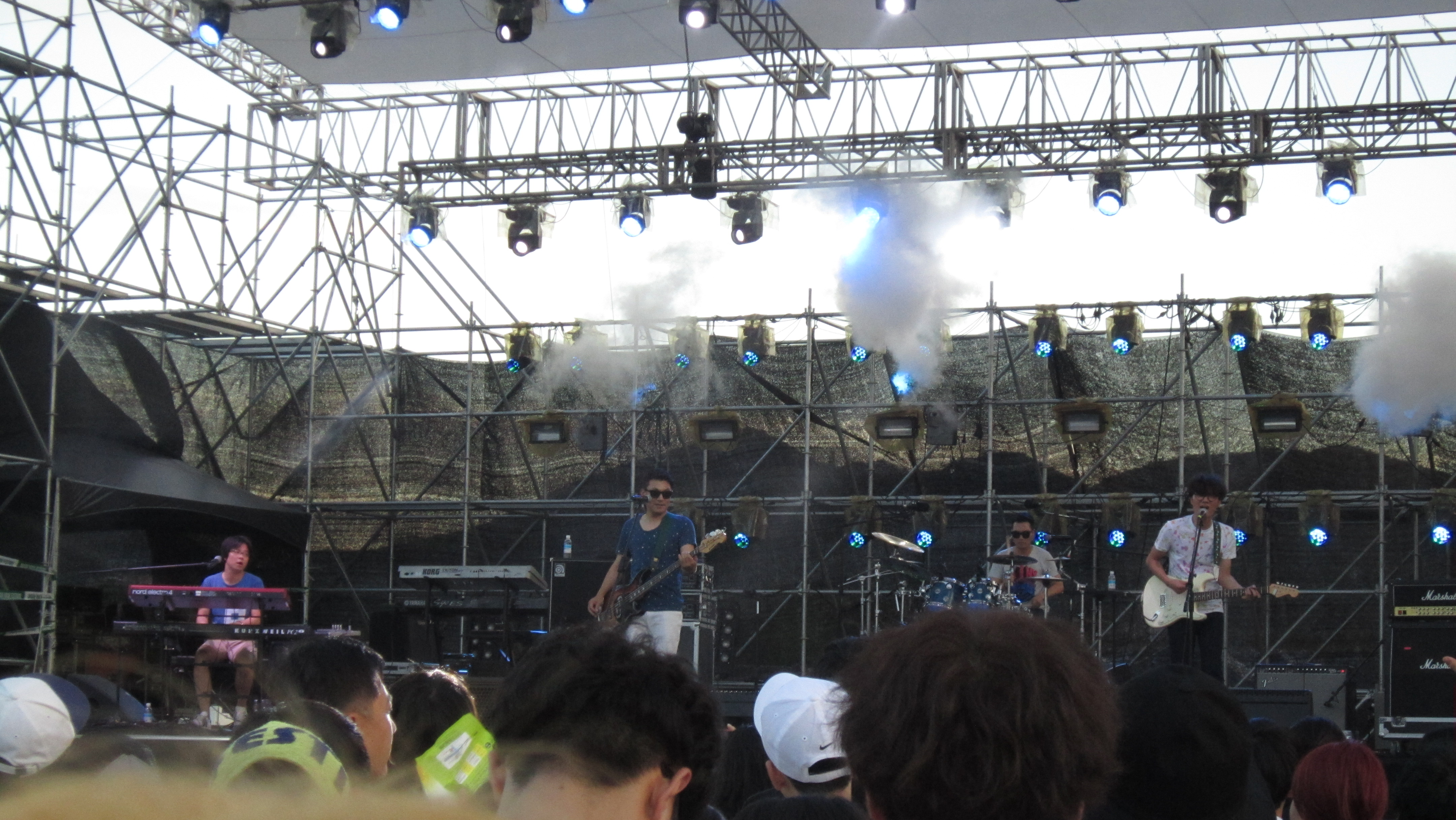 Every Single Day in Busan Rock Festival on 7 August 2015